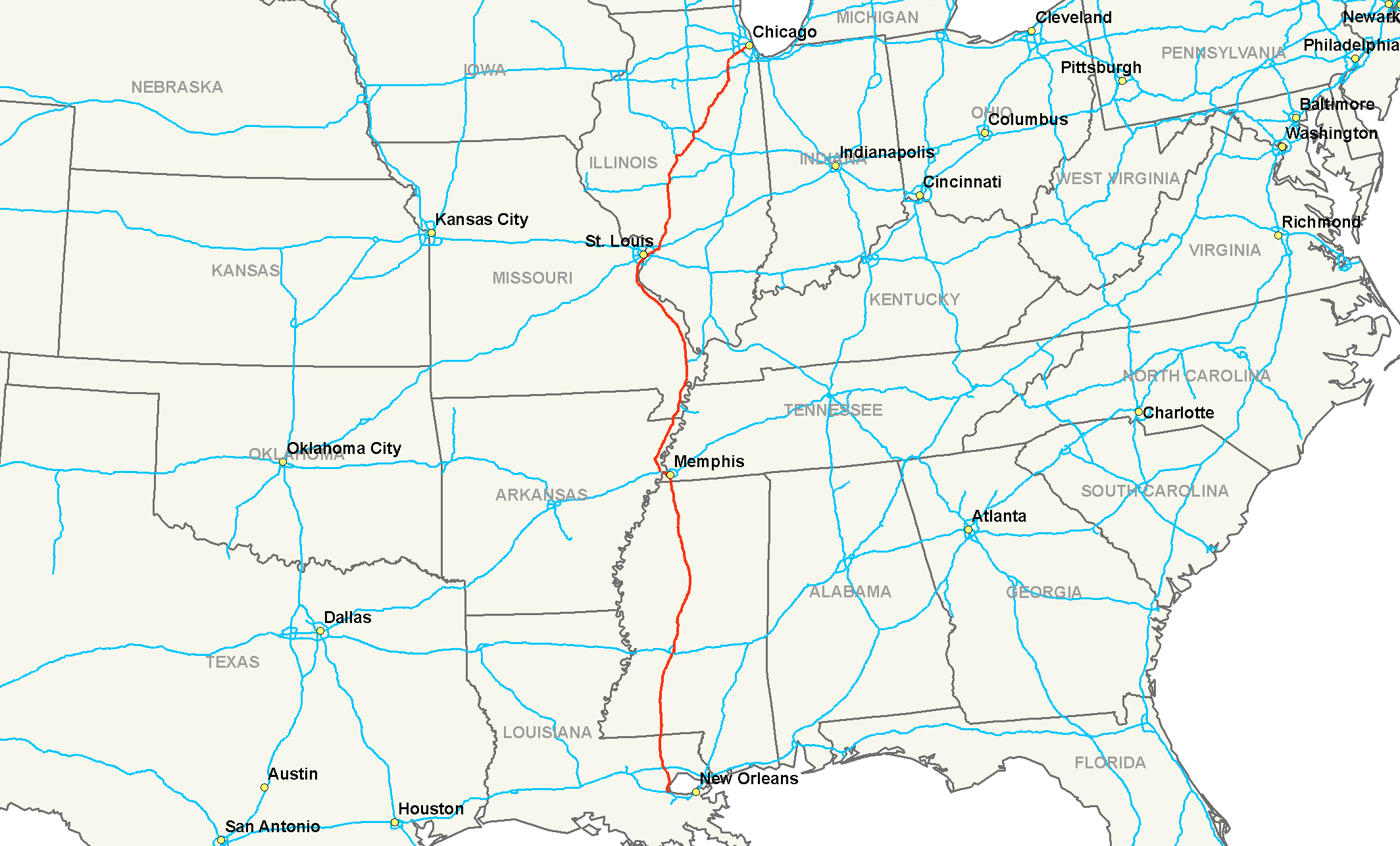 Map of Interstate 55